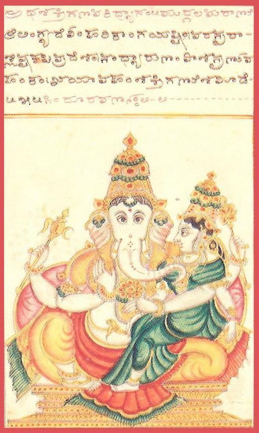 Reproduction from the Śrītattvanidhi ("The Illustrious Treasure of Realities"), an iconographic treatise compiled in the 19th century in Karnataka, India, by order of the then Maharaja of Mysore, Krishnaraja Wodeyar III (b. 1794 - d. 1868).